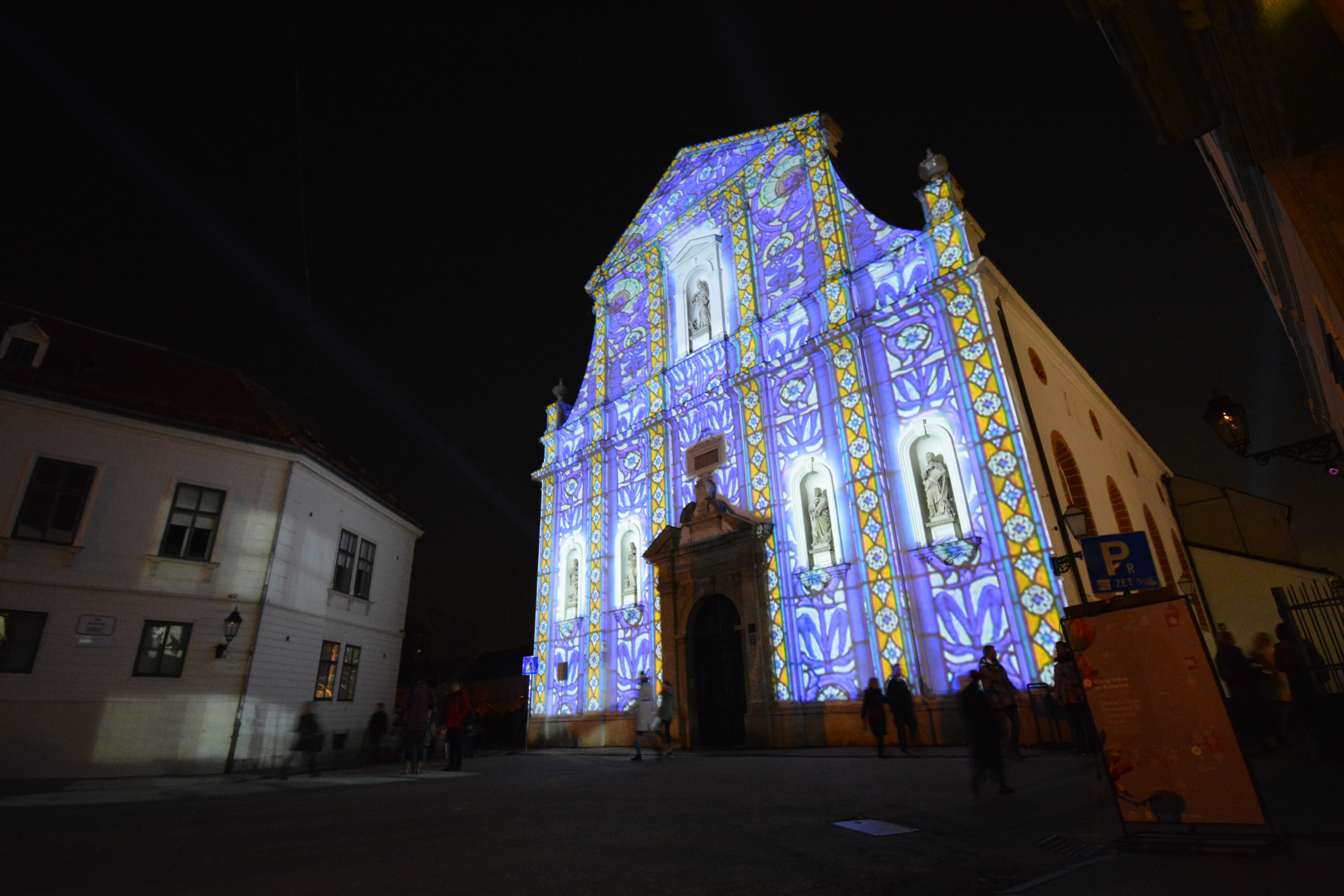 2019 Festival of Lights, Zagreb.